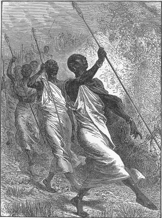 Illustration of the marching army of Mutesa I of Buganda on 25 August 1875, as described by Henry Morton Stanley